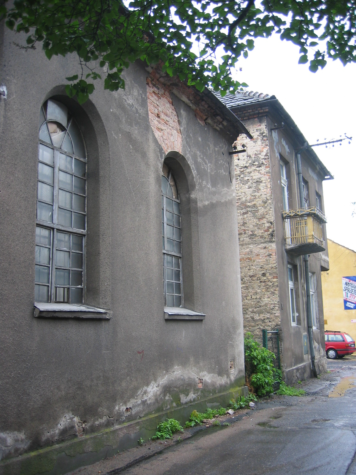 Synagogue in Krzeszowice